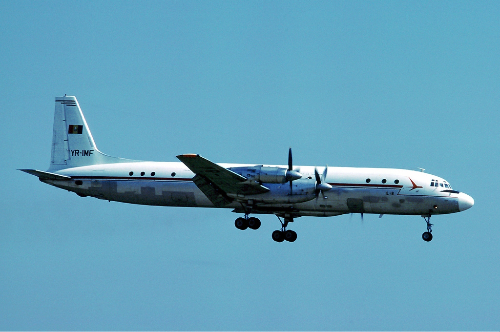 TAROM Ilyushin Il-18V